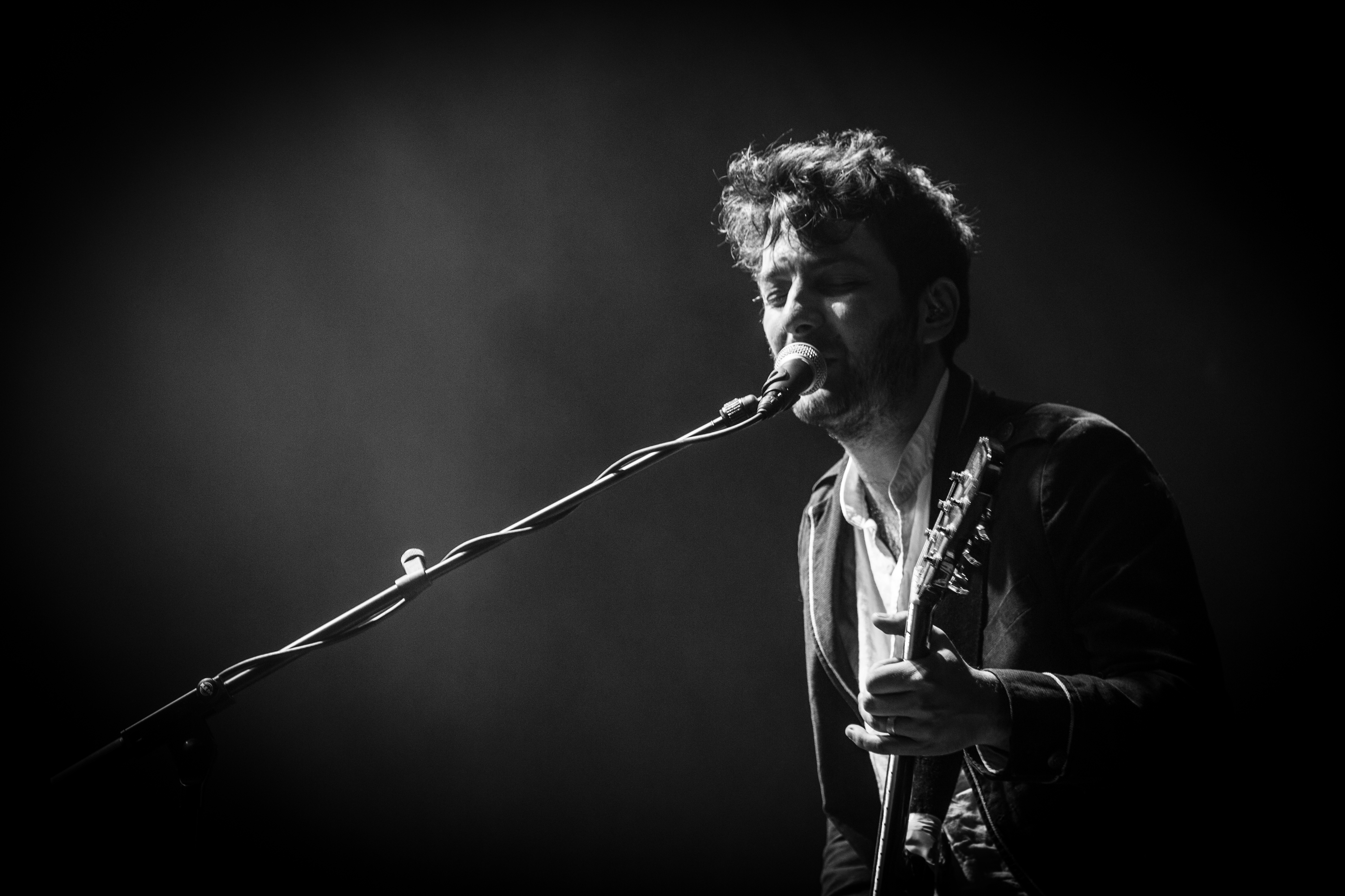 Les Discrets live at Roadburn Festival, Tilburg, April 2017